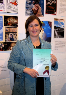 Sasha Regan who runs the Union Theatre in London SE1 is seen holding the Peter Brook Empty Space Awards certificate for the Up-and-Coming Theatre award, presented to newly-established studio spaces, or to artistic directors with new policies. The picture was taken on the afternoon of 4 November 2008 at the National Theatre Studio space where the awards ceremony for 2008 was held.